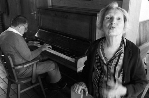 Resident of a nursing home in Munich (Germany)